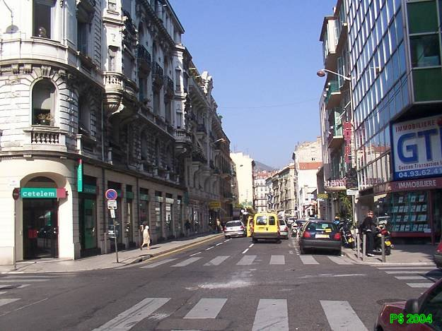 37 Rue Pastorelli, vers le boulevard Carabacel (direction E)